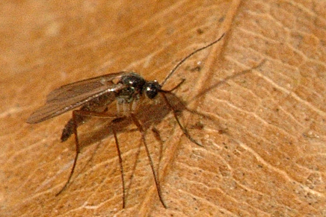 Picture taken in Commanster, Belgian High Ardennes . Species: possibly Aphidoletes aphidomyza